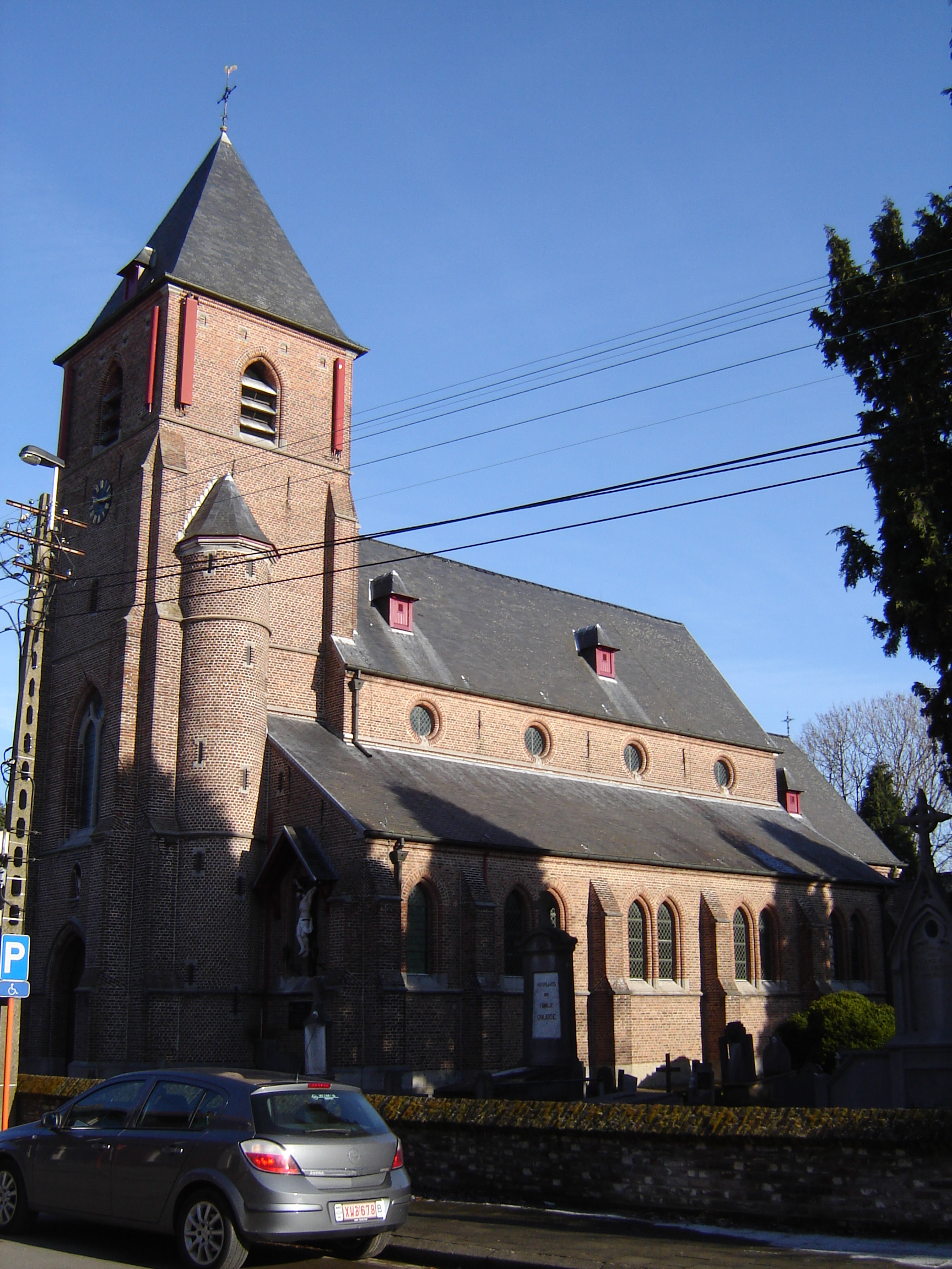 Church of Saint Amand in Heurne. Heurne, Oudenaarde, East Flanders, Belgium